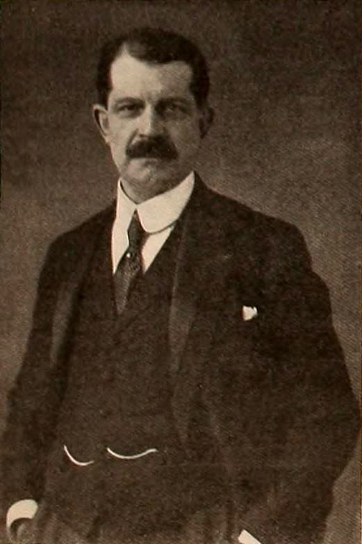 French inventor, engineer, and industrialist Léon Gaumont, on page 5000 of the June 19, 1920 Motion Picture News. Gaumont was the director of a French motion picture firm.